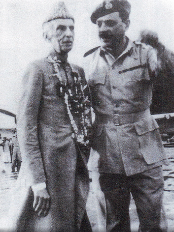 Ayub Khan with Quiad-e-Azam